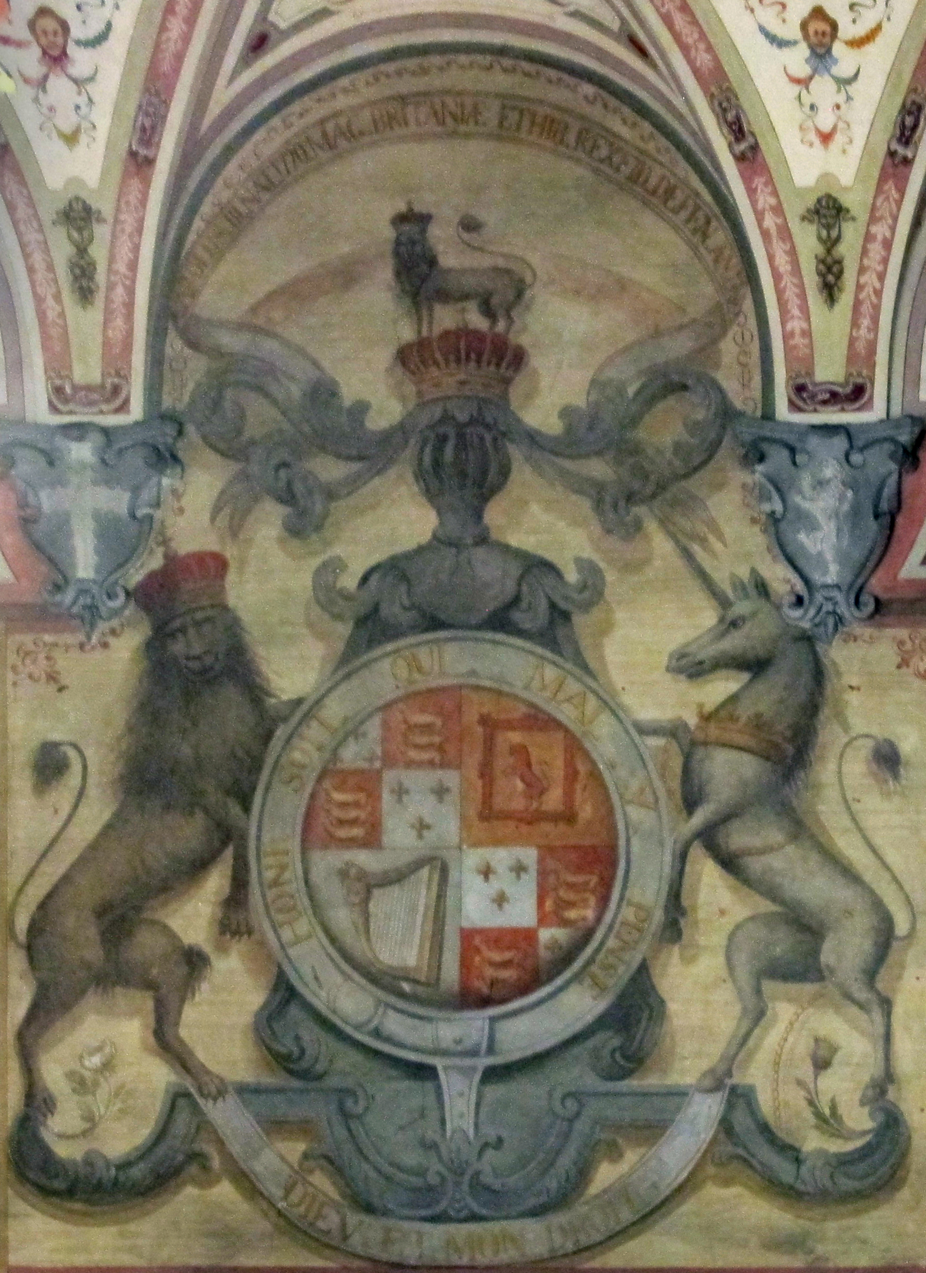 Royal coat of arms of England, Scotland, Ireland, and France in the Palazzo di San Clemente, dating from its occupation by Charles III, alias the Count of Albany.